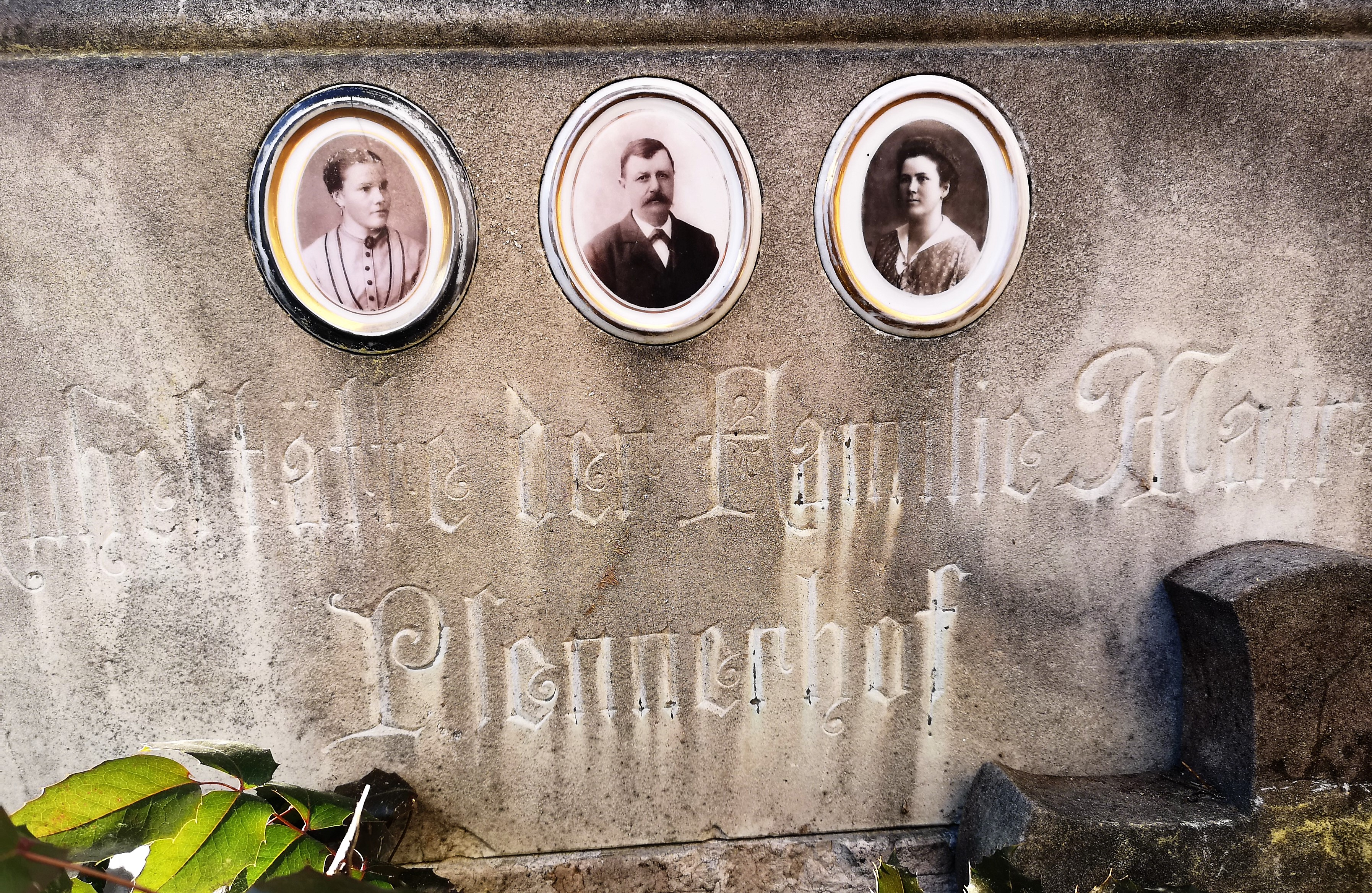 Porcelain photoportraits on the Matt Psennerhof tumbstone at the old Gries graveyard in Bozen-Bolzano (South Tyrol) dating back to ca 1900